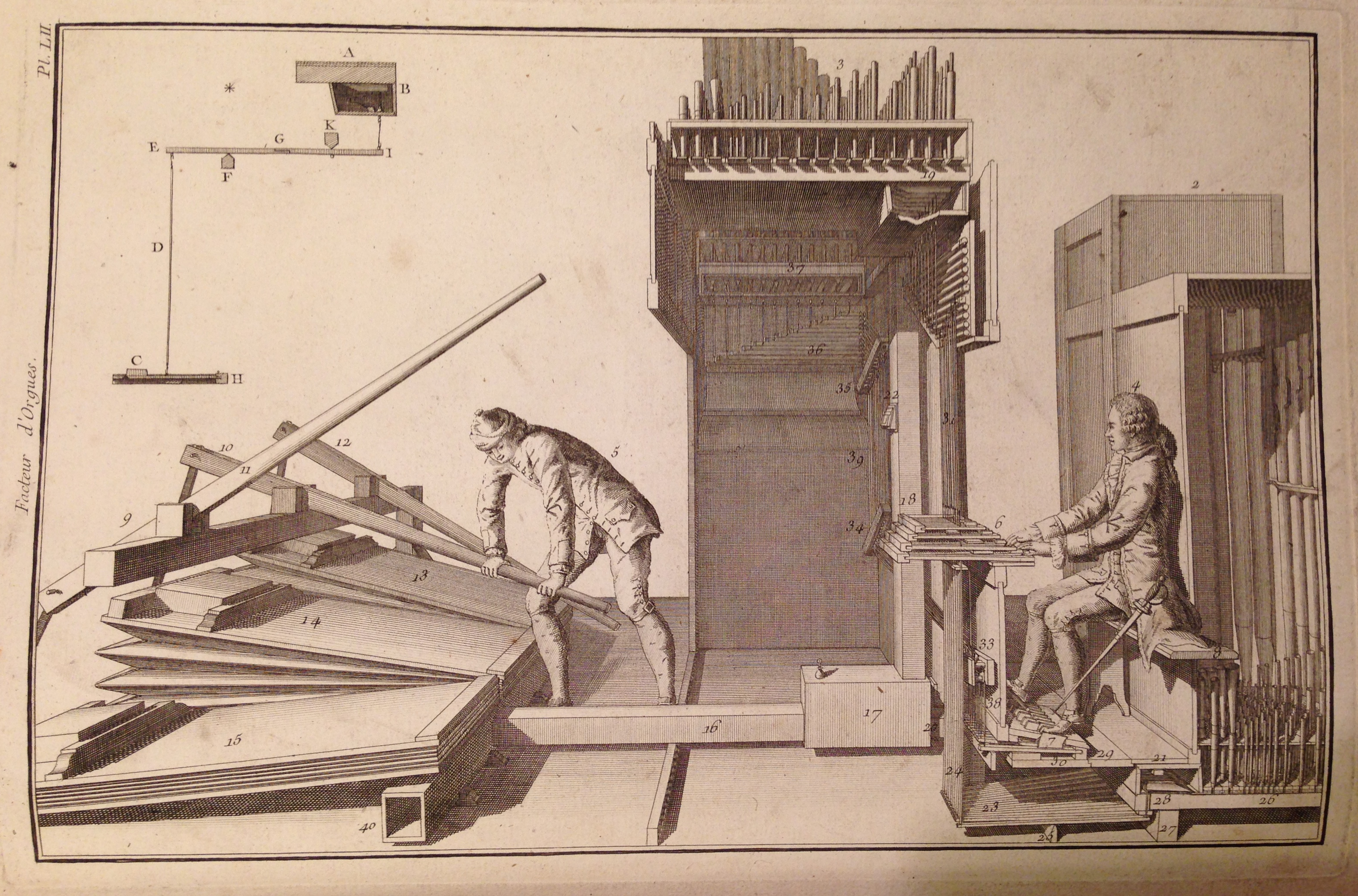 "L'art du facteur d'orgues" by François Bédos de Celles. Artwork from the book.